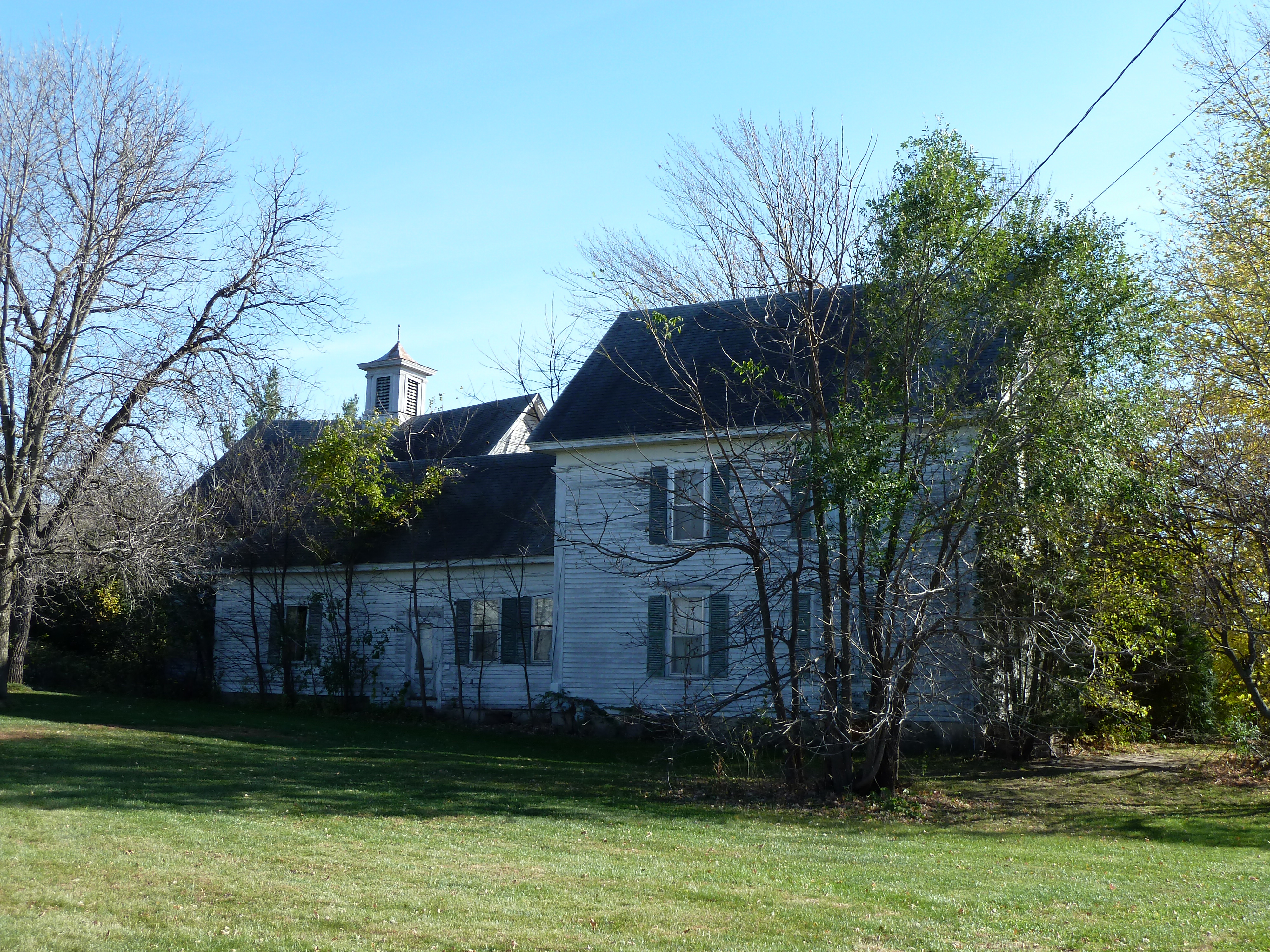 Daniel S. Piper House, Medford, Minnesota, USA.